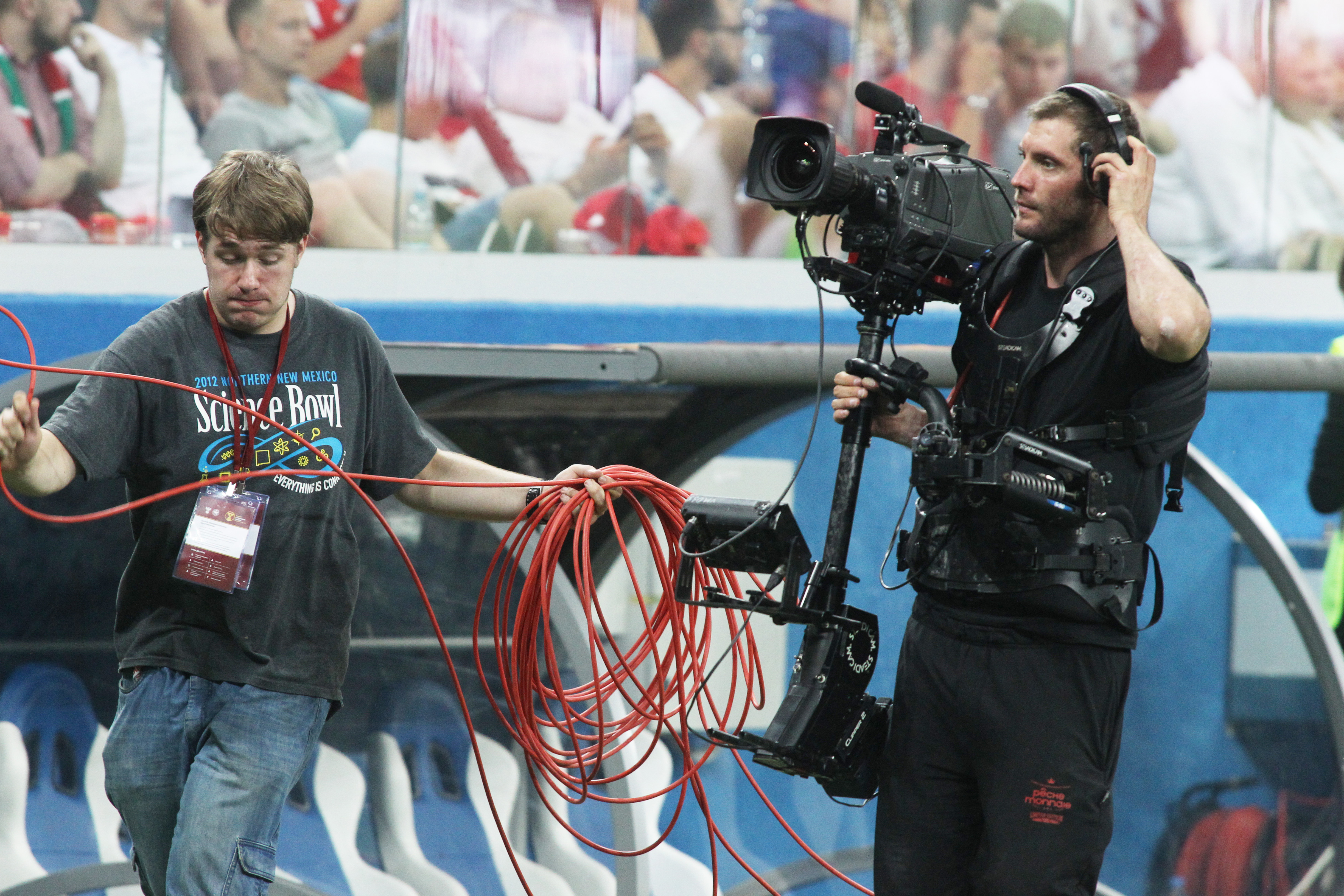 Steadicam operator with assistant shooting football game.